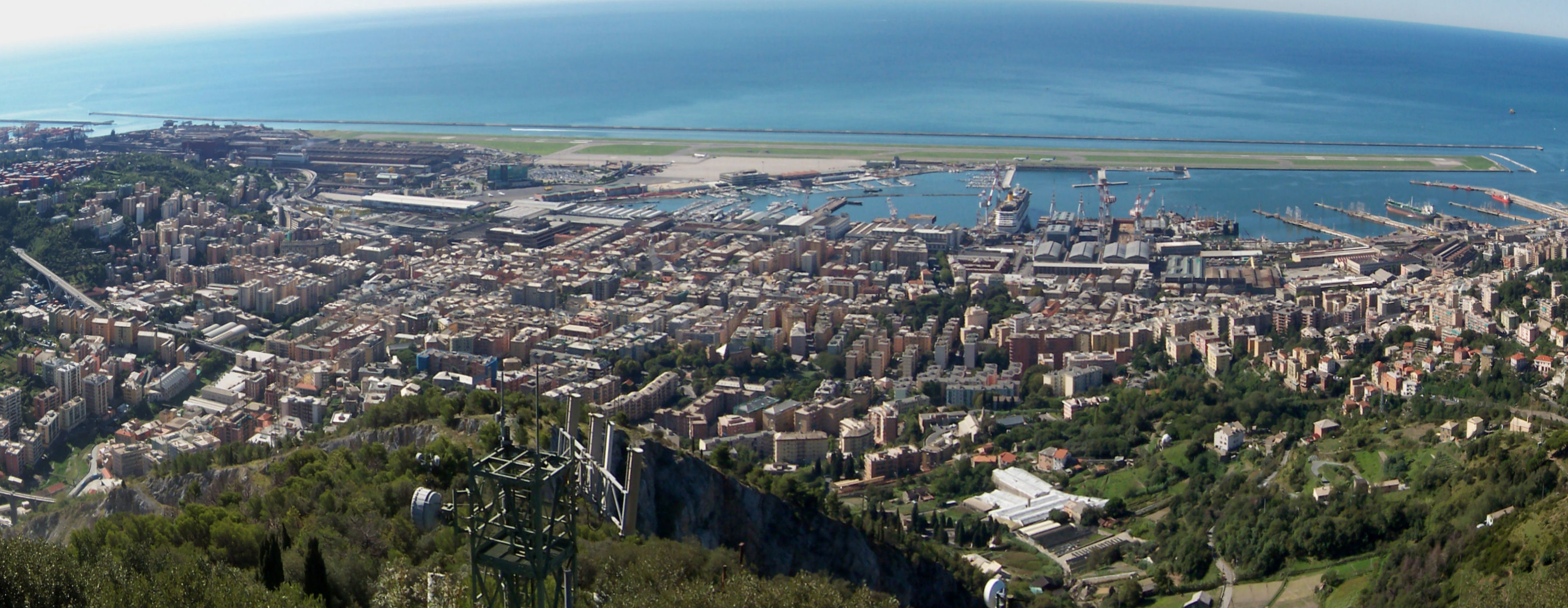 View of Sestri Ponente from mount Gazzo